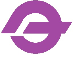 Tanohata Iwate chapter